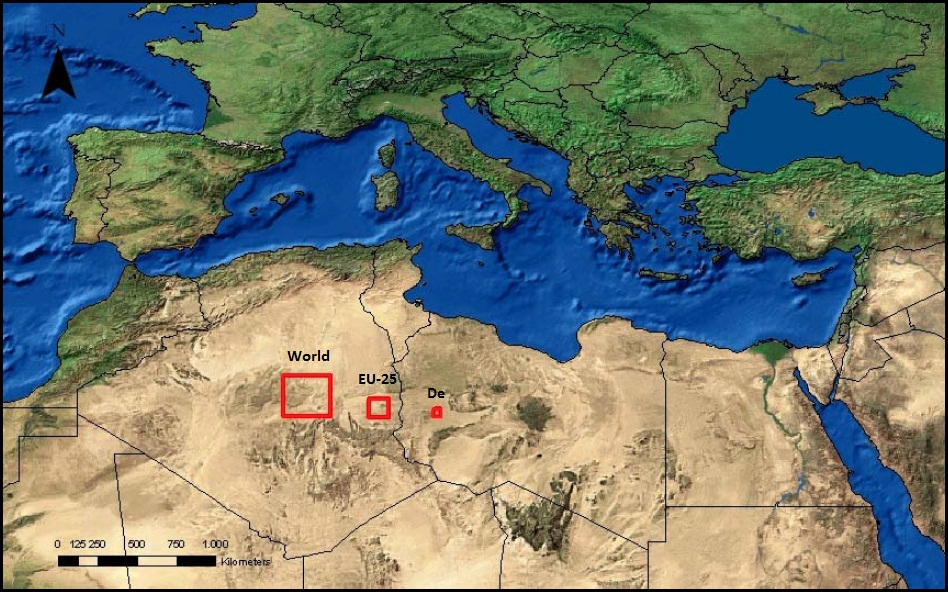 Theoretical space needed for solar power plants to generate sufficient electric power in order to meet the electricity demand of the world, Europe (EU-25) and Germany (de) respectively. Electrical energy being globally around 17% of energy demand (Germany 22%), the areas would have to be roughly five times the size for total energy demand. (Data by the German Center of Aerospace (DLR), 2005).